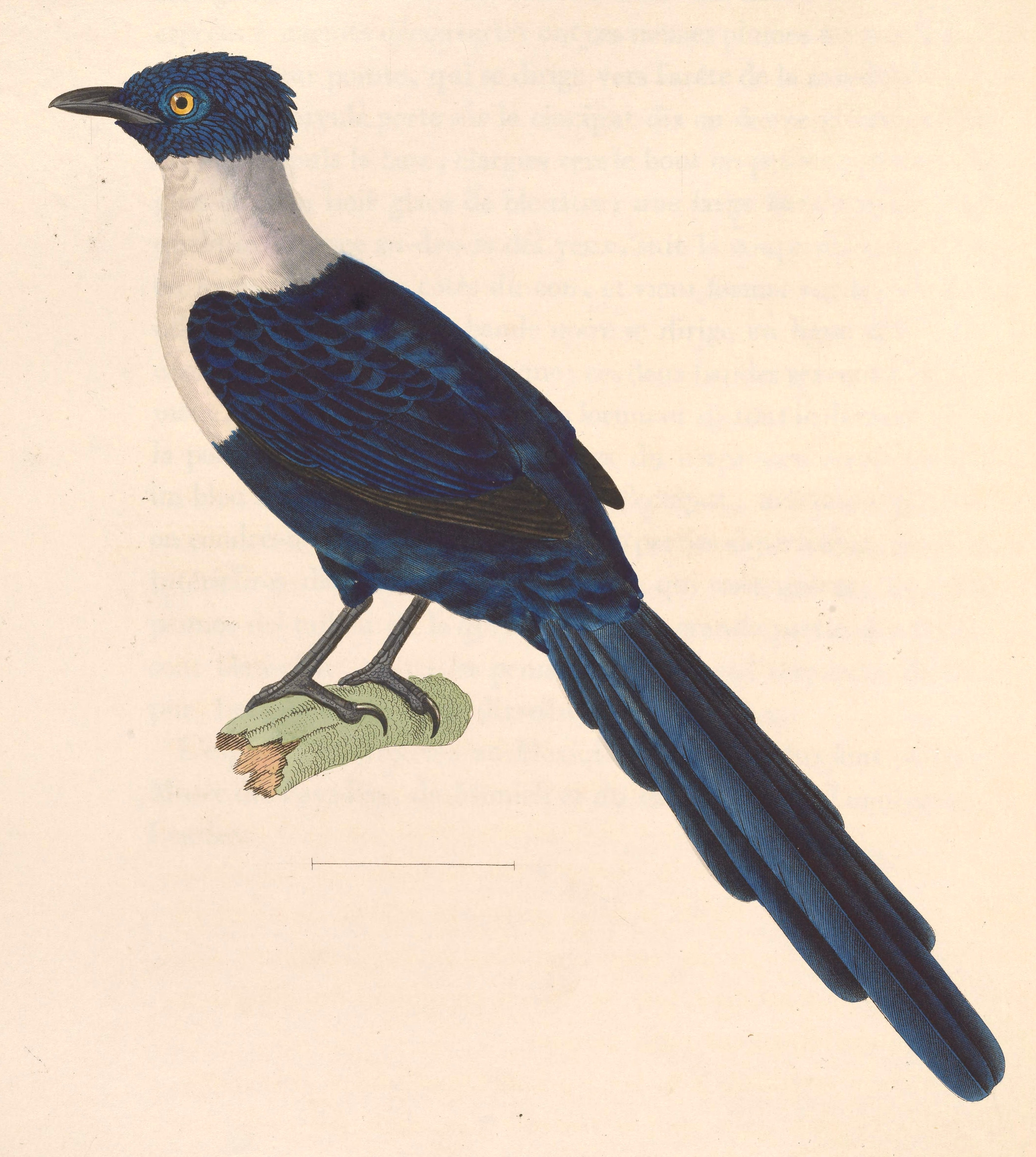 « Garrula torquata » = Streptocitta albicollis (White-necked Myna)